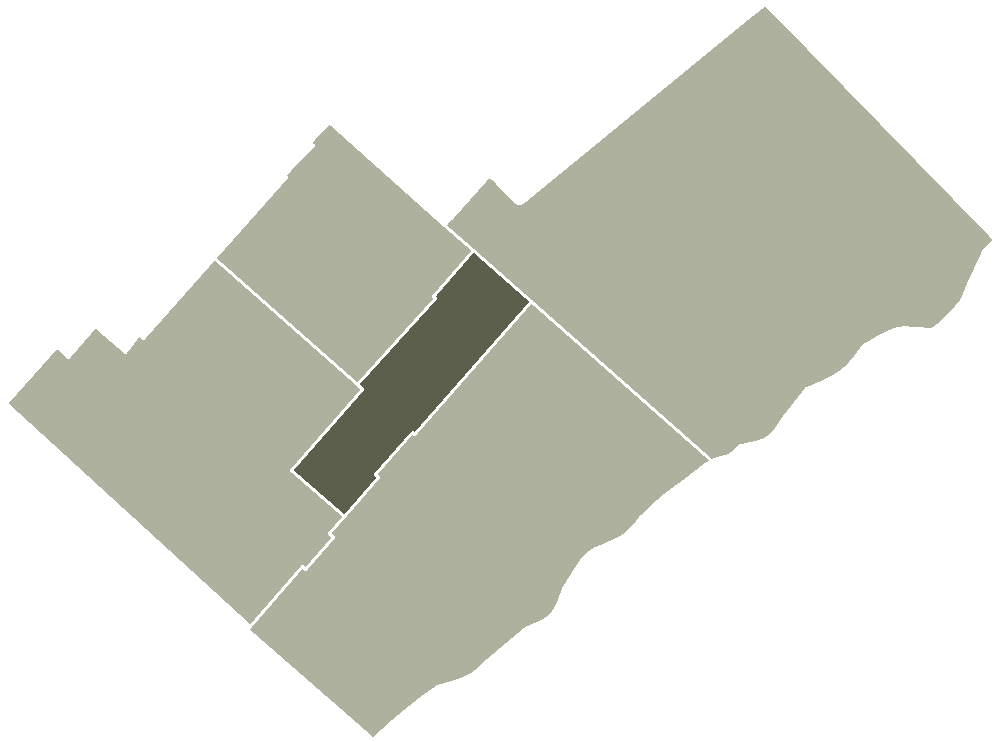 Location of the "Muñiz" locality in the "San Miguel Partido" of the "Greater Buenos Aires", Argentina.